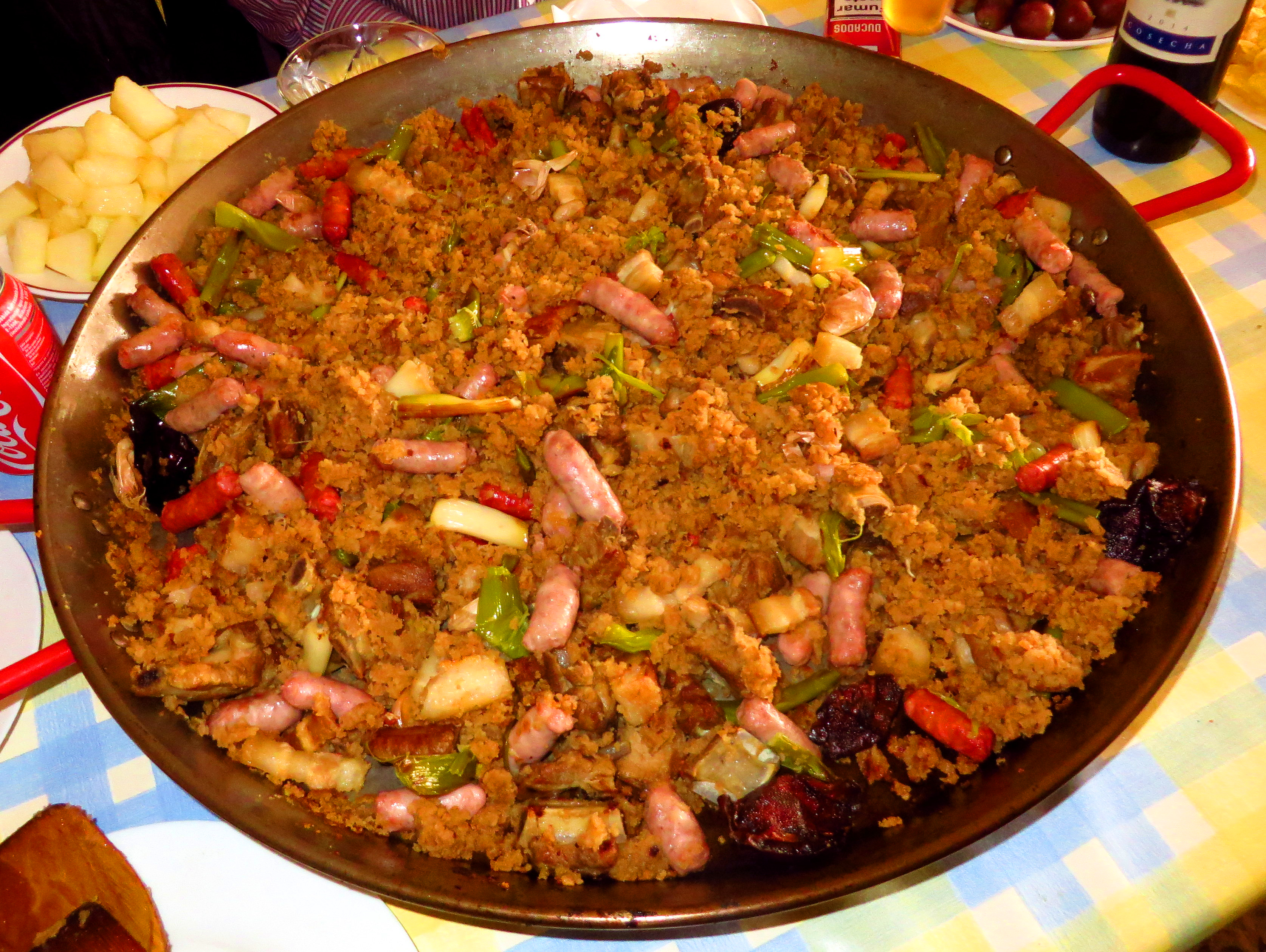 Migas murcianas de pan y harina con todos sus perejiles